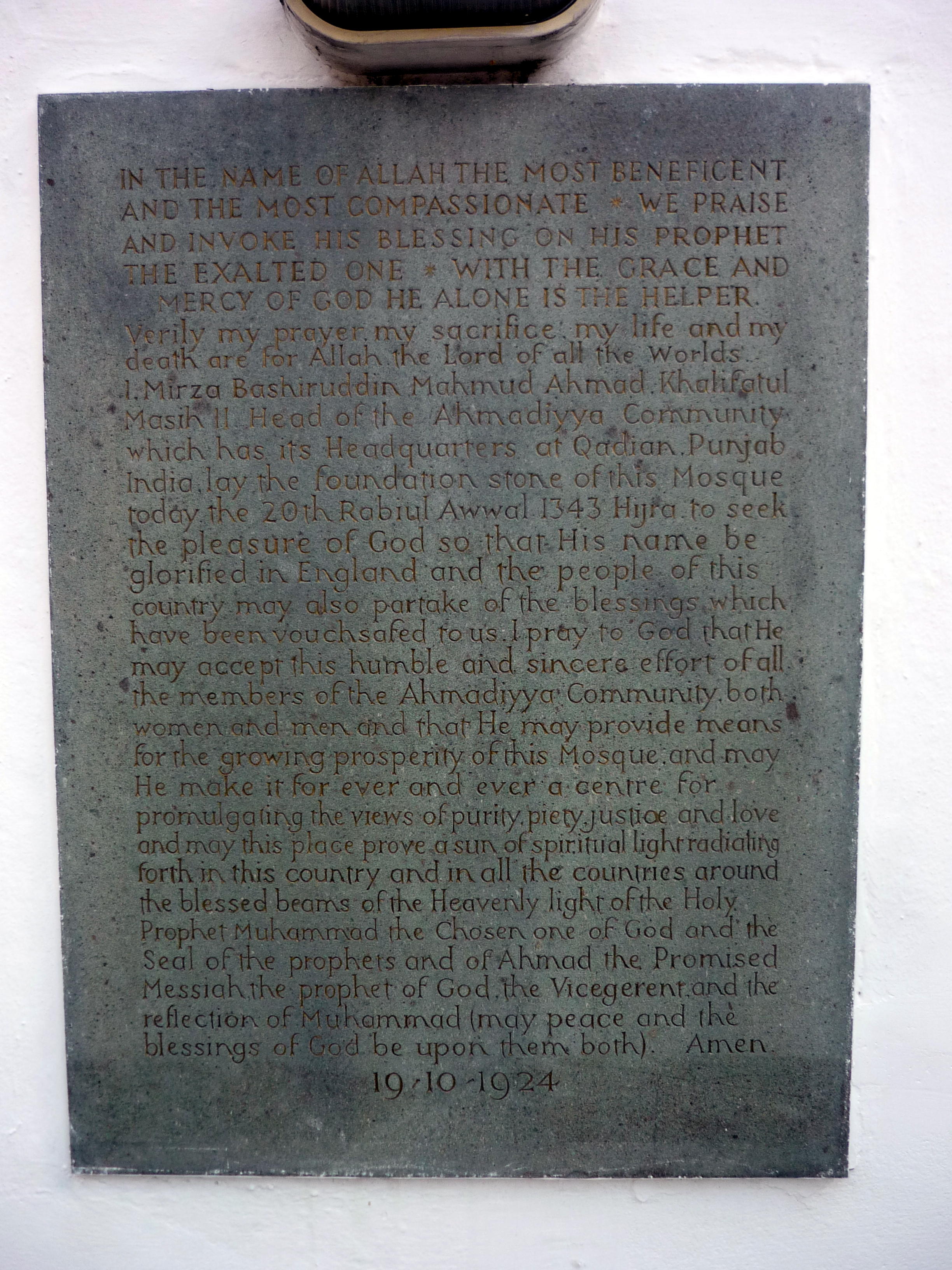 Prayers of the second Khalifat ul-Massih on the Fazl Mosque in London